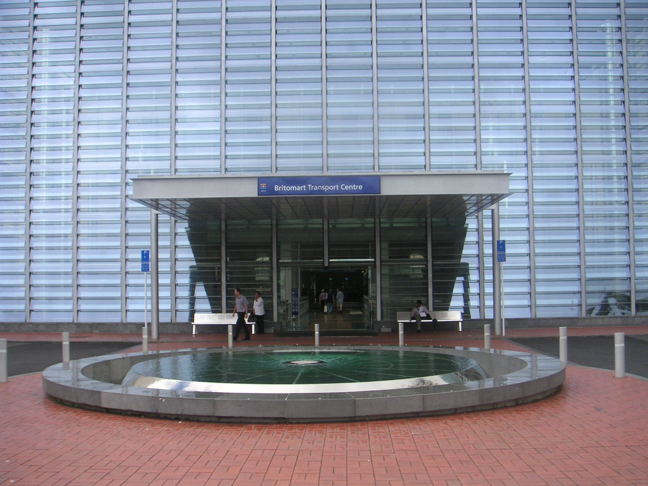 Britomart Transport Centre rear entrance, Auckland, New Zealand.